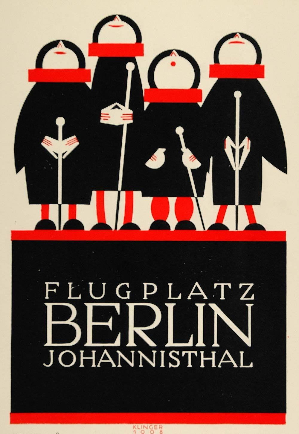 Flugplatz Berlin-Johannisthal. 1924 two-color lithograph of a poster, designed by Julius Klinger in 1908